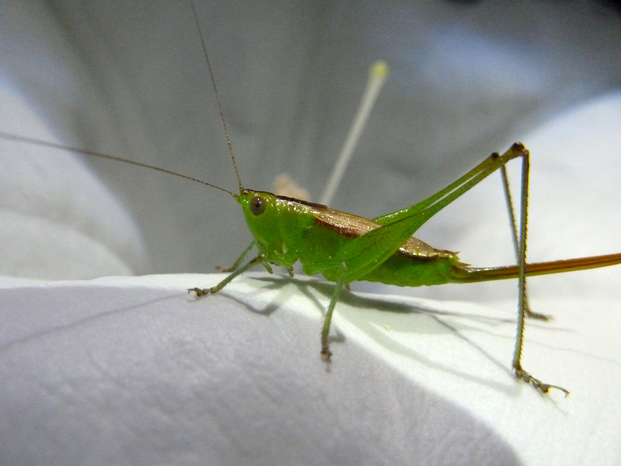 Conocephalus brevipennis female on Datura. DC/Baltimore Cricket Crawl 2012. 24 August 2012.